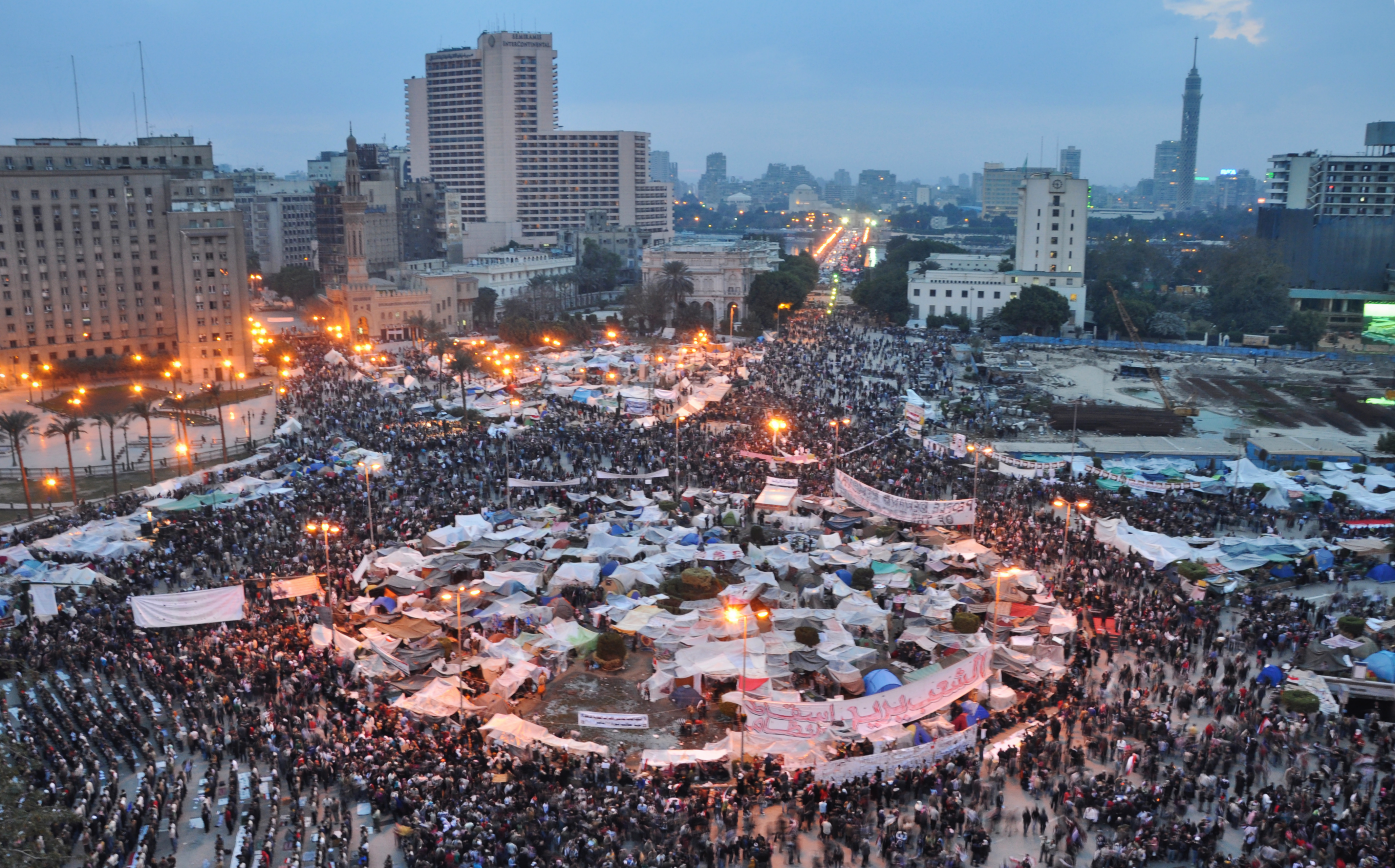 Over 1 Million in Tahrir Square demanding the removal of the regime and for Mubarak to step down.